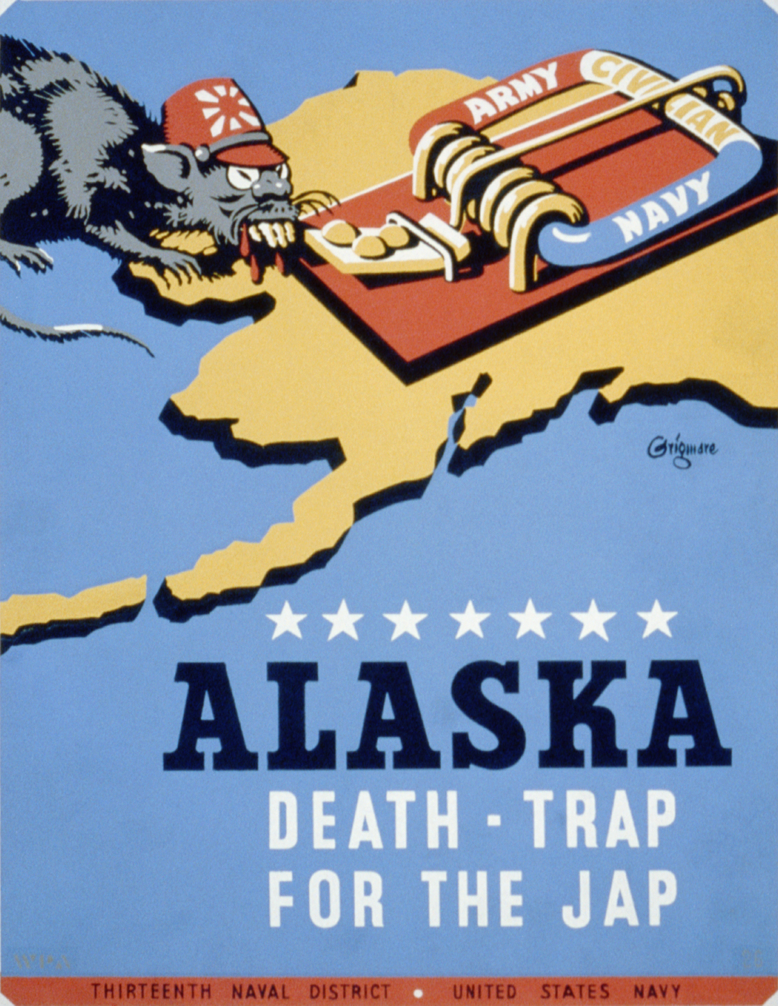 Alaska - death-trap for the Jap / Grigware. Propaganda Poster for Thirteenth Naval District, United States Navy, showing a rat wearing a rising sun fez, representing Japan, approaching a mousetrap labeled "Army / Civilian / Navy", on a background map of the then-Alaska Territory. The poster's graphics and its caption reading "Death-Trap For The Jap" are aimed at Japan's then-occupation of Alaskan islands in the Aleutian Islands Campaign.